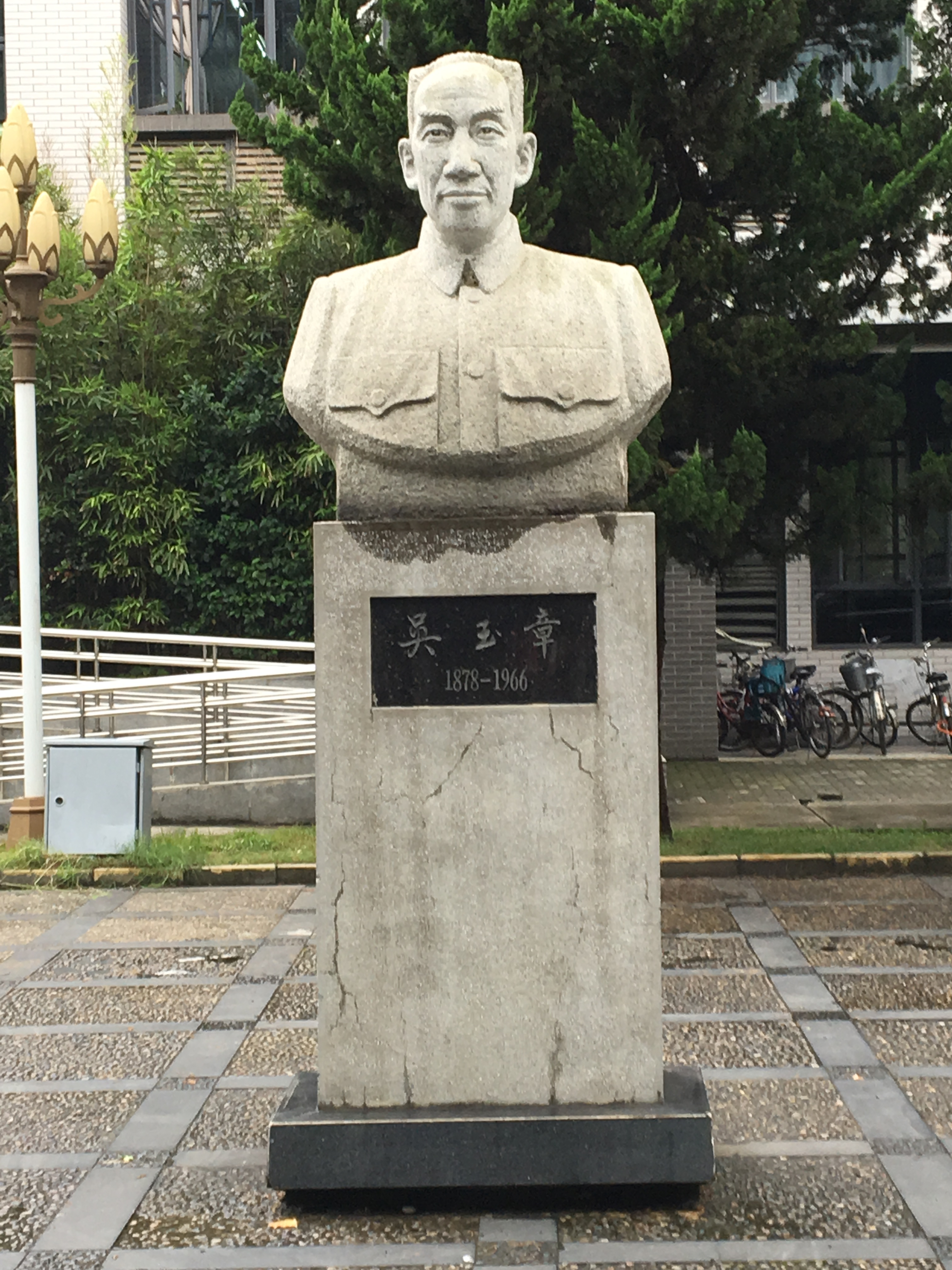 statue of Wu Yu-zhang in Wang-jiang campus, Sichuan University, Chengdu, China.